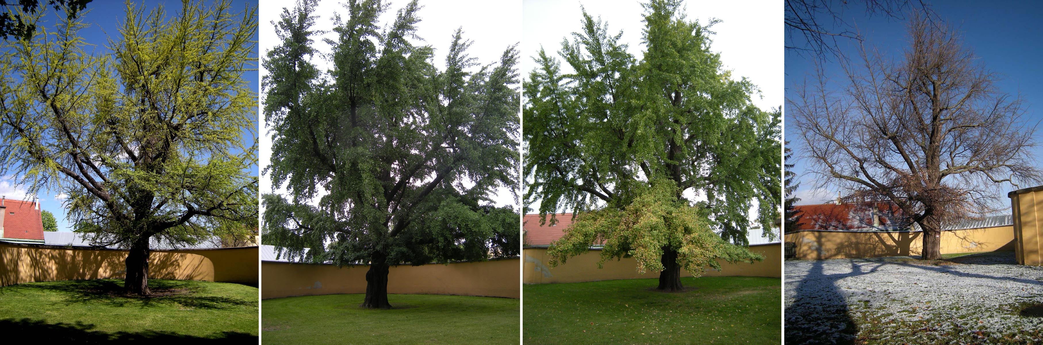 This is the first Ginkgo biloba which came to Austria, in 1781 (in same year, three more came to Central Europe, all of them via Great Britain). This specimen however is more special than the others: It is a male tree, with a female branch engrafted (Source on historical data: ISBN 3-85493-052-6 p. 13). The shots were taken in April, June, October and November. This file is addicted to David Brooks.